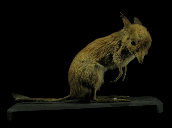 Paratyp, MNHN ZM MO-1853-824 of Chaeropus yirratji Travouillon, Simões, Miguez, Brace, Brewer, Stemmer, Price, Cramb & Louys, 2019